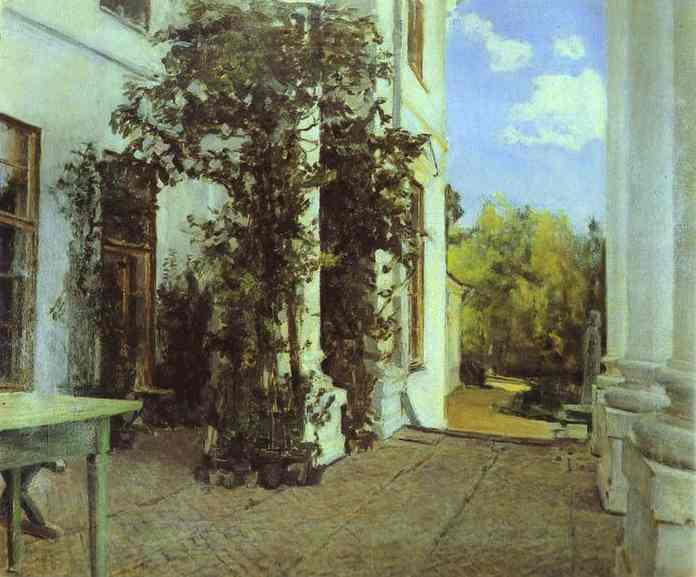 Terrace in Vvedensk. 1880s. Oil on canvas. The Museum of Russian Art. Erevan, Armenia.